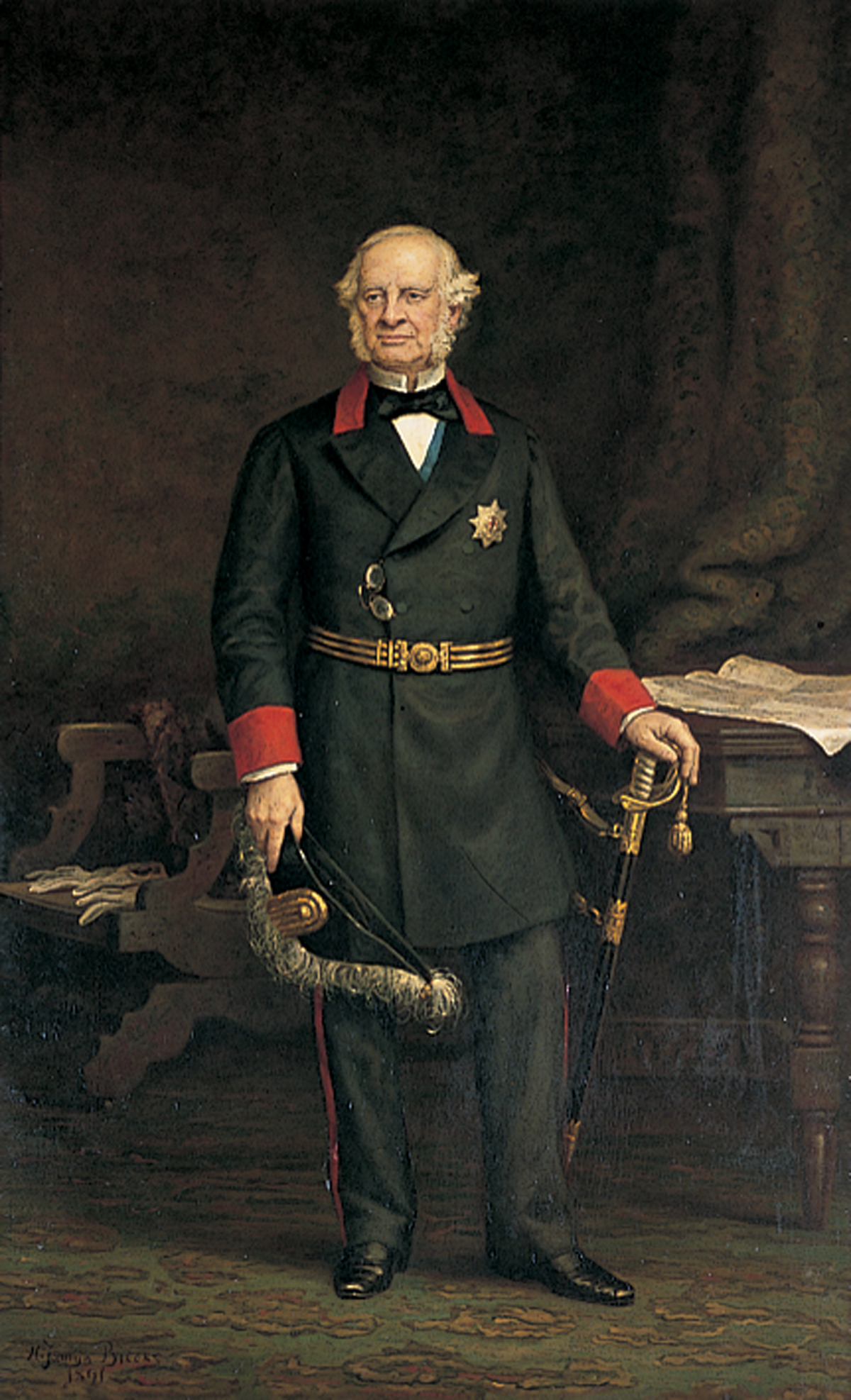 Depicts Granville Leveson-Gower, 2nd Earl Granville